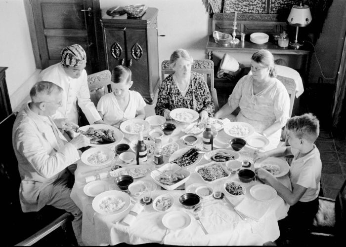 Negative. The family of C.H. Japing partaking of a rijsttafel with Aunt Jet and Uncle Jan Breeman in Bandung.